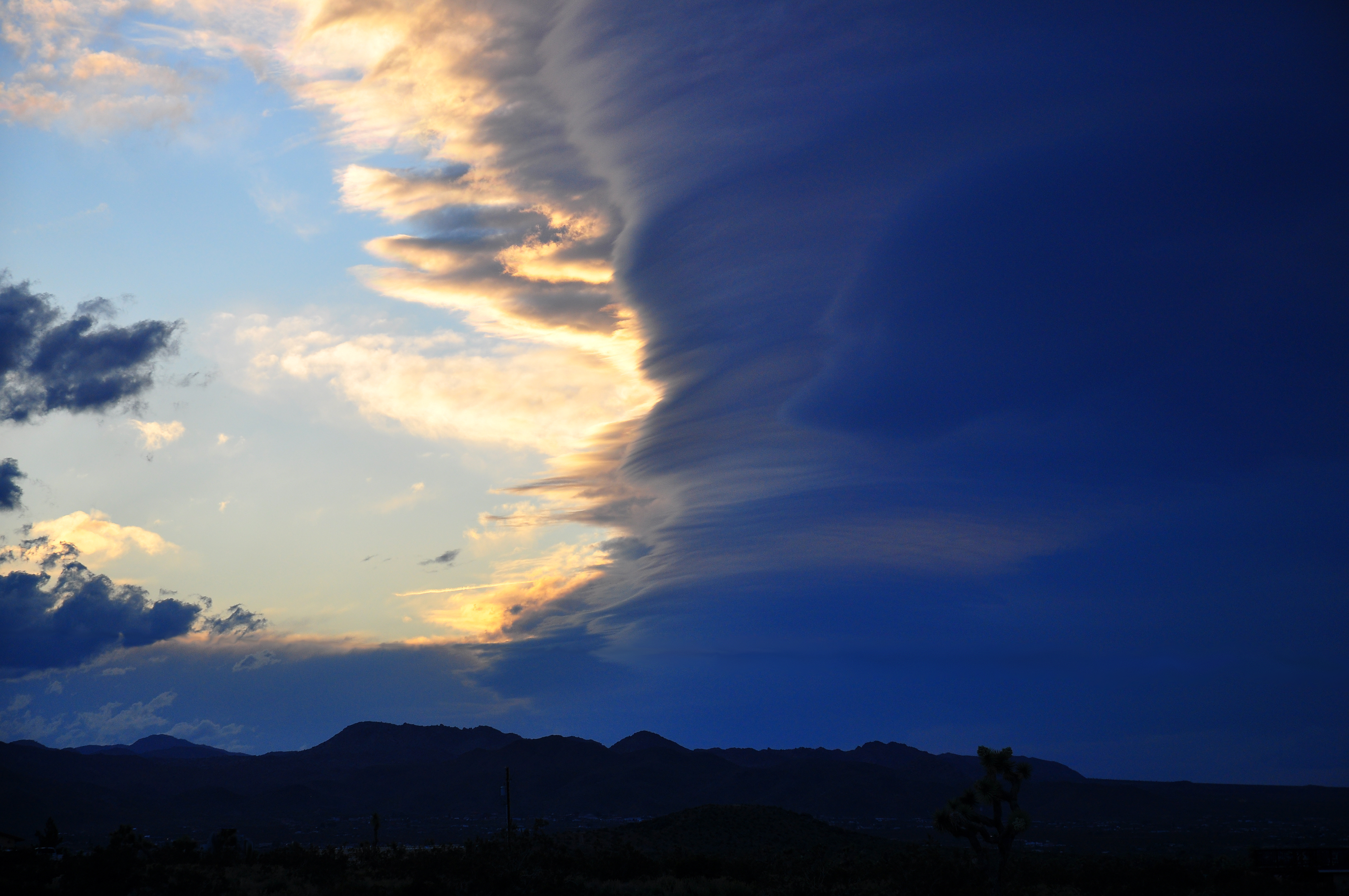 Massive towering vertical cloud appears at sunset over the Mojave desert, as a storm front moves in from the inland empire.